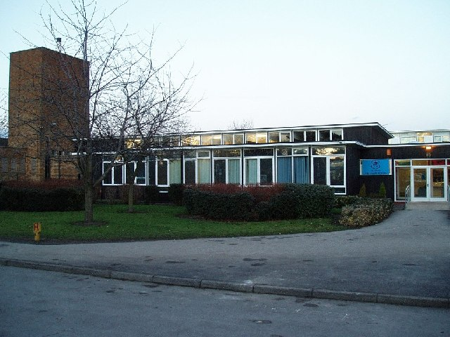 Grove Comprehensive School, Balderton. I am proud to say that I was a pupil there!